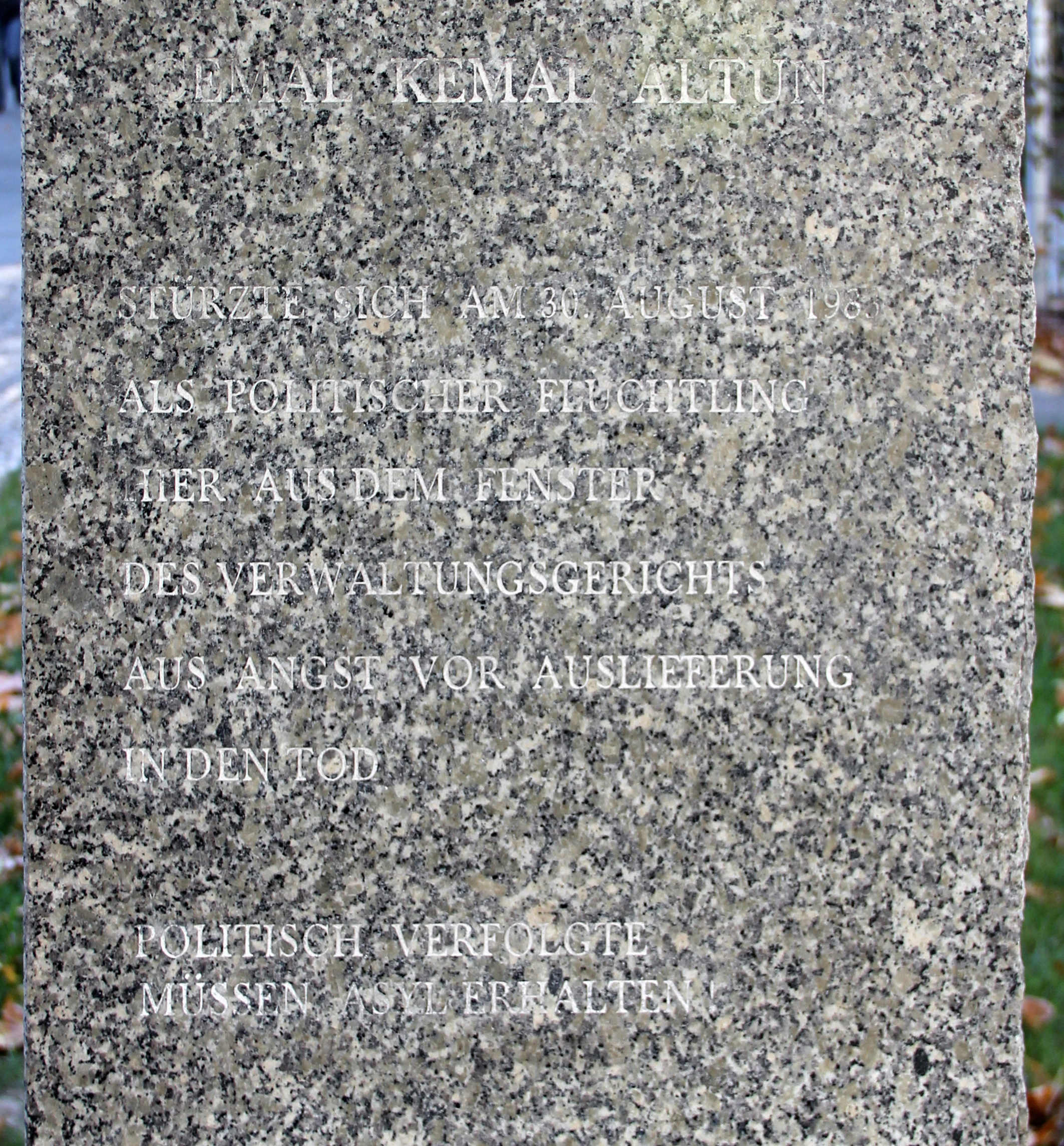 Memorial plaque, Cemal Kemal Altun, Hardenbergstraße 20, Berlin-Charlottenburg, Germany